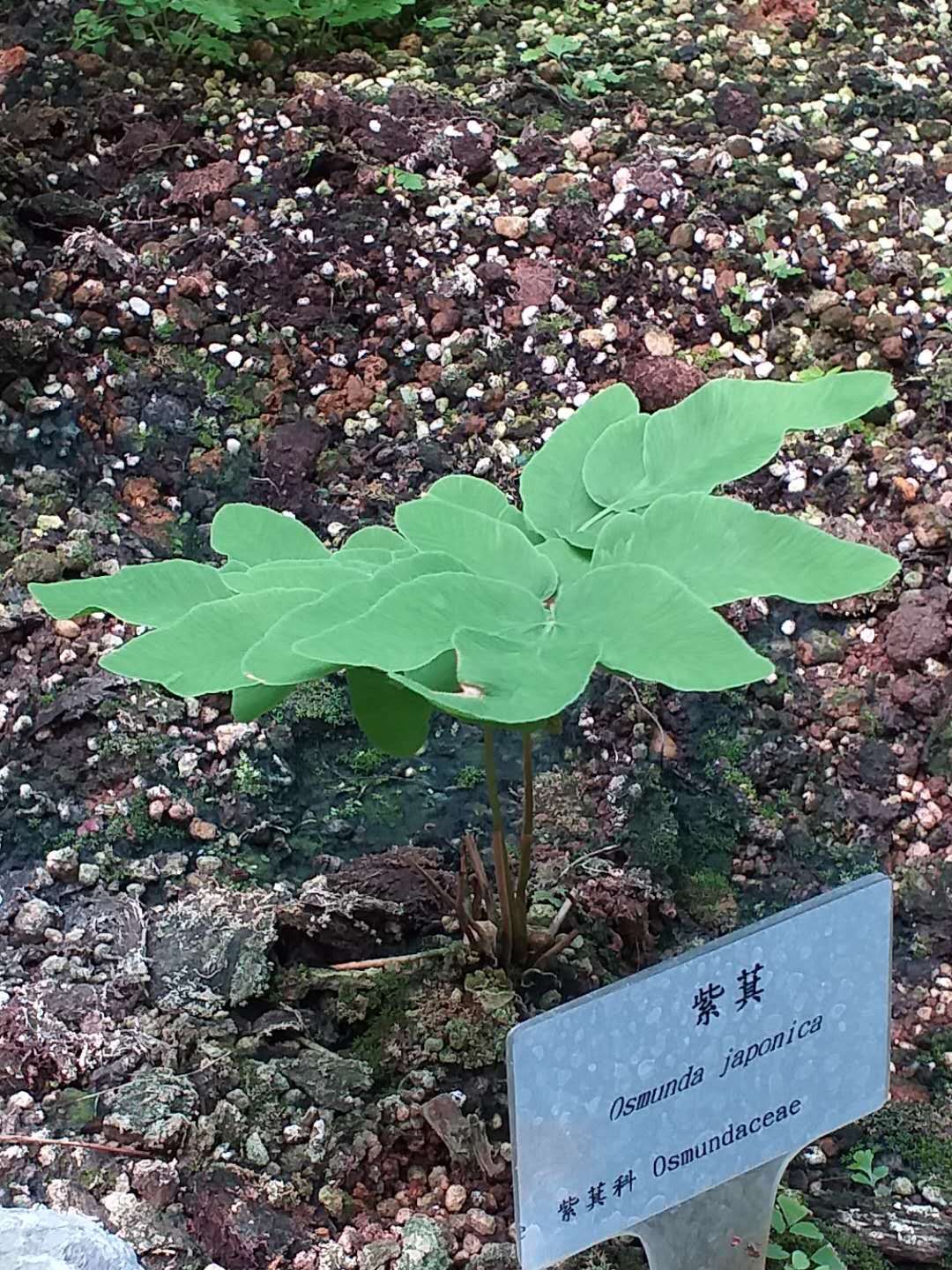 Young plant of Osmunda japonica,“A Fern Paradise in Taiwan - Permanent Exhibition”,in National Museum of Natural Science,Taiwan.